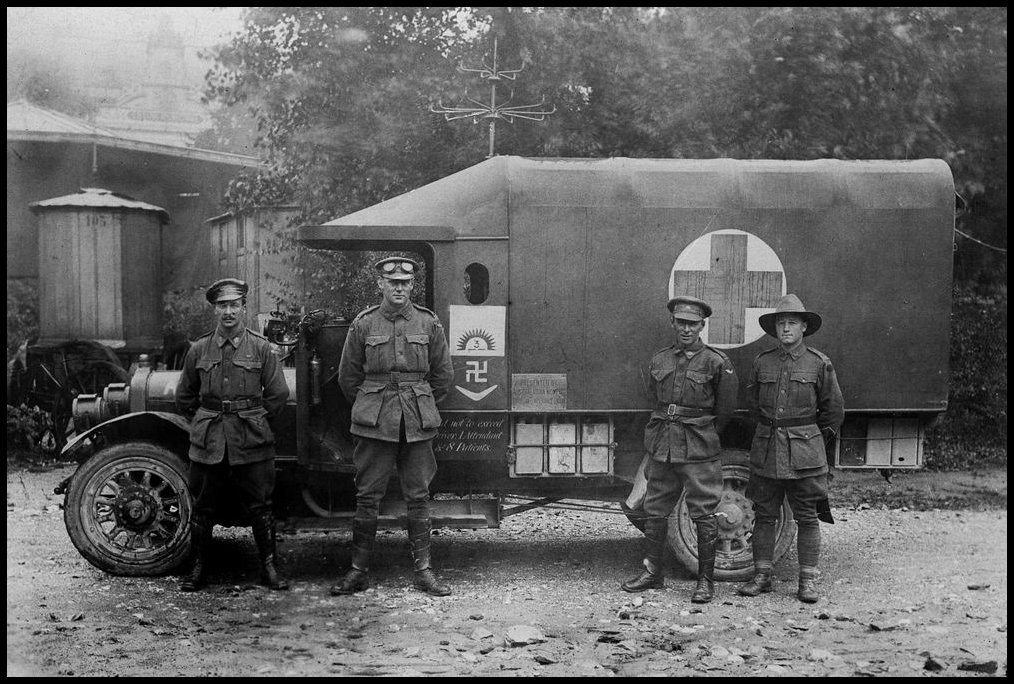 Australian Imperial Force servicemen with an ambulance presented by the Woman's Christian Temperance Union in 1916.